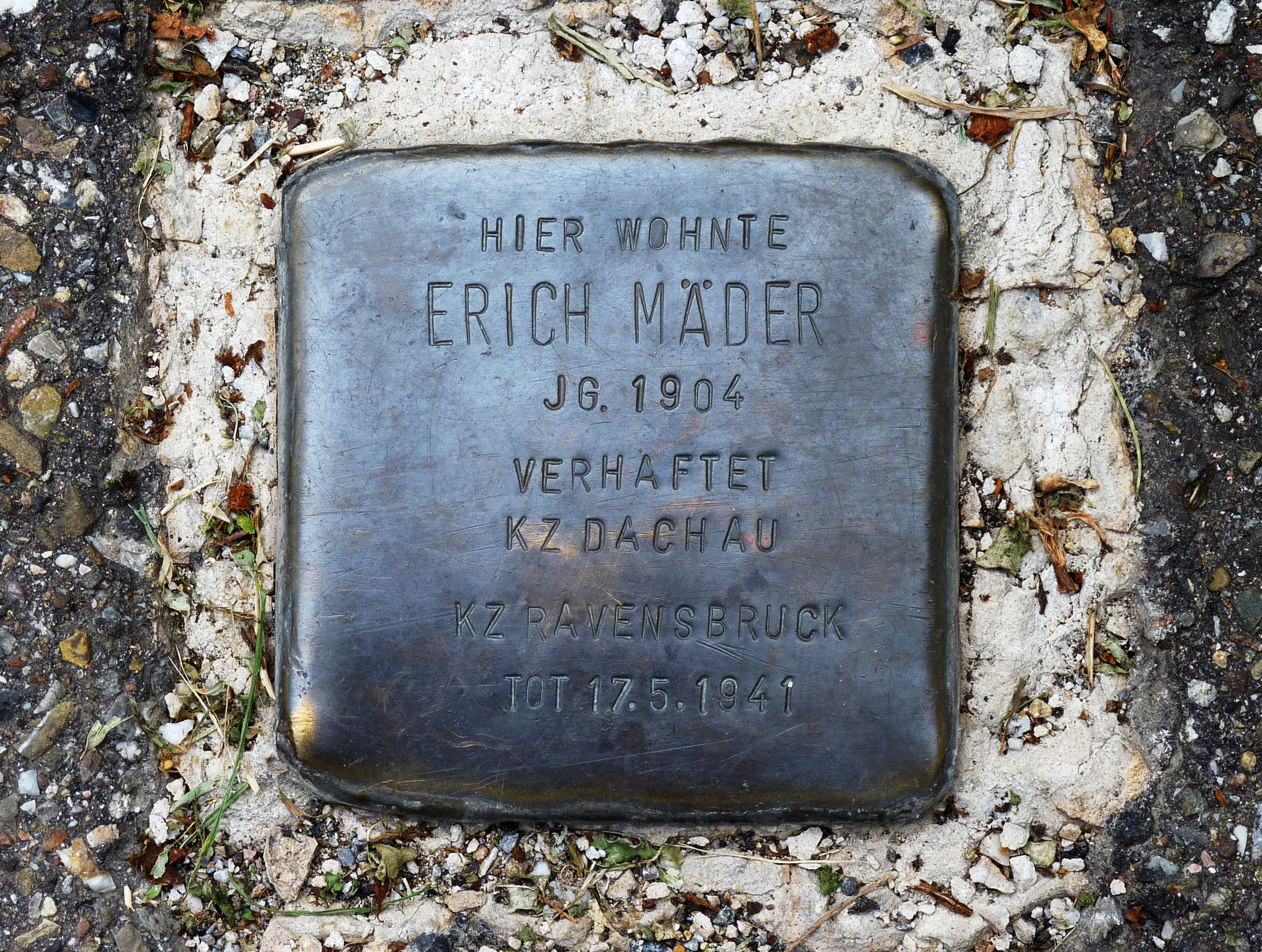 Memorial "Stolperstein" for Erich Mäder, a homosexual victim of the Nazis. It is located at Jahnstrasse 10 in the city Freiburg The text reads: "Here lived Erich Mäder, born 1904. Arrested. Dachau Concentration Camp. Ravensbrück Concentration Camp. Dead on 17 May 1941."